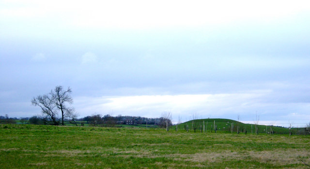 Howe Hill from the South. 12th Century Motte atop a natural elevation and surrounded by a ditch.